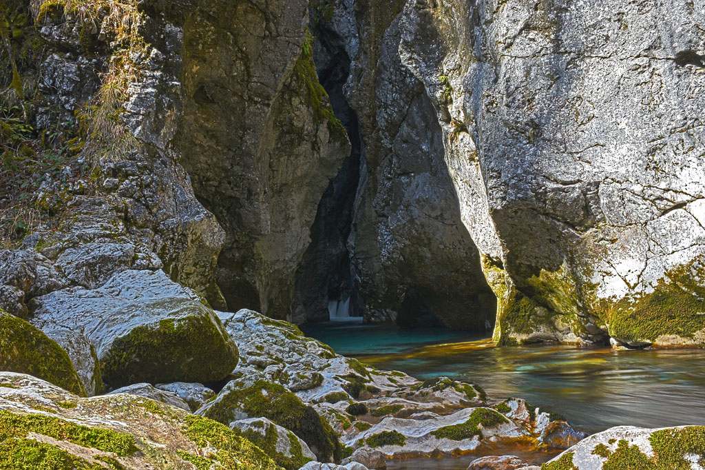 Veliki Predoselj v Kamniški Bistrici (valley) is a 3o m deep and some 300 m long, narrow gorge which the river has cut into limestone.